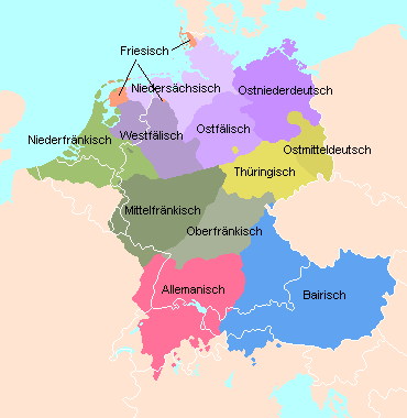 German dialects after 1945 [calling Westmitteldeutsch "Mittelfränkisch", missing "Thüringisch" as part of Ostmitteldeutsch]